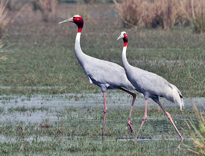 Sarus Crane (Grus antigone) at Sultanpur National Park in Gurgaon District of Haryana, India.